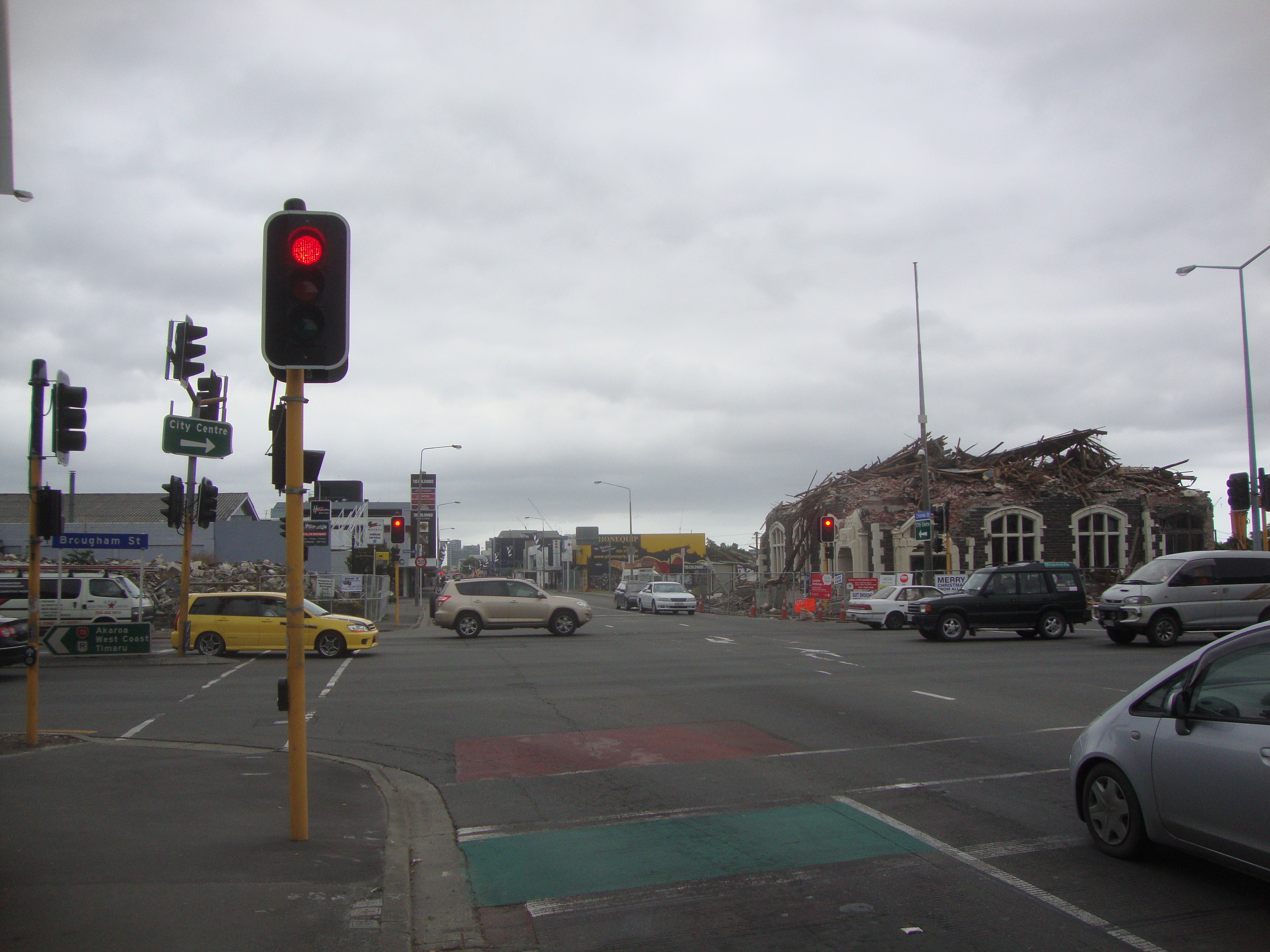 Sydenham Post Office after its partly demolition on 23 December 2011.